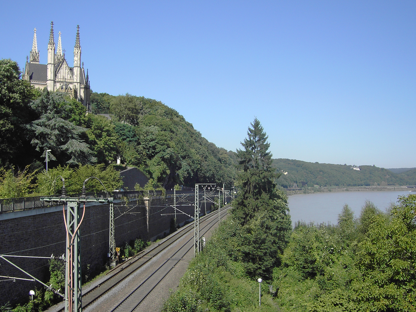 Linke Rheinstrecke (left-side rhine railroad) near Remagen, Germany.